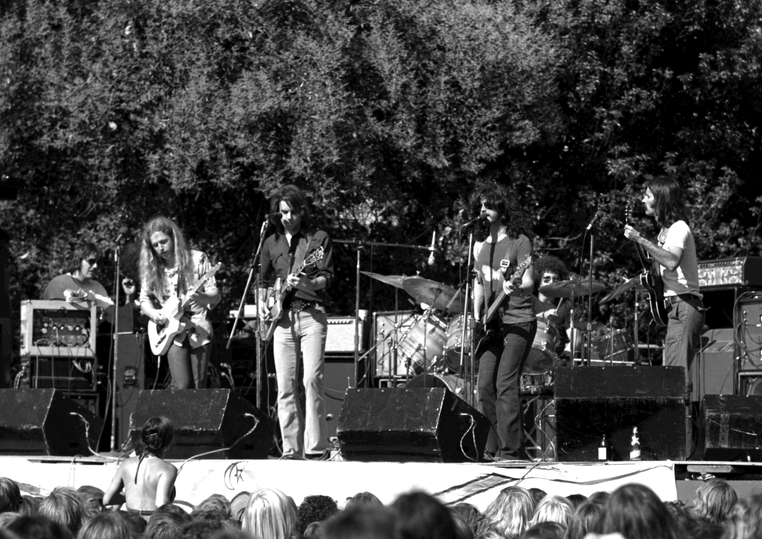 The band Kingfish performing in El Camino Park, Palo Alto CA, June 8, 1975. Left to right: Barry Flast (keyboards), Robbie Hoddinott (guitar), Bob Weir (guitar), Dave Torbert (bass), Chris Herold (drums), Matthew Kelly (harmonica/guitar).